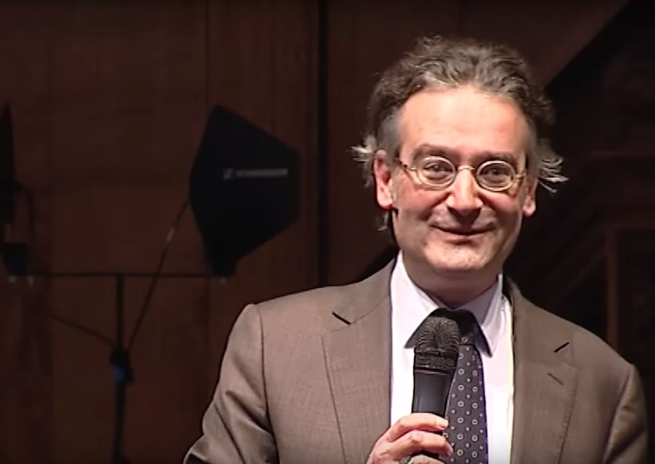 Netherlands Scientific Council for Government Policy (The Hague, November 28th 2013) - How much (in)equality can societies sustain? / Gelijkheid, ongelijkheid of naïviteit? De verdeling van rijkdom in Nederland, door Bas van Bavel.